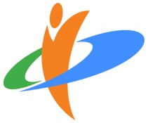 Nakadomari Aomori chapter